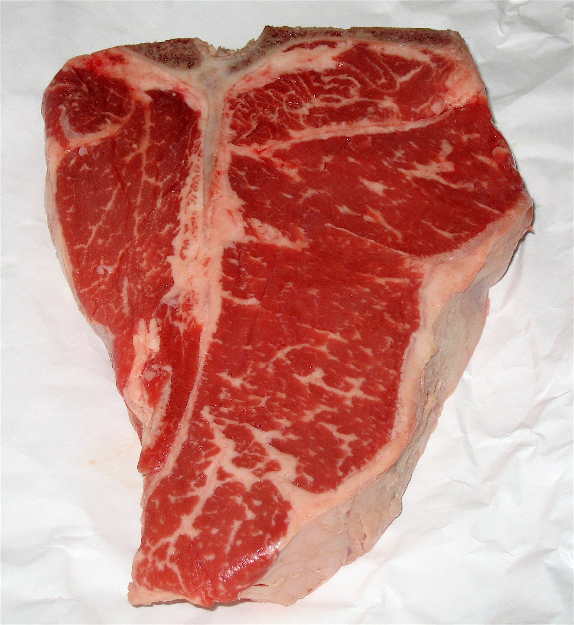 Raw t-bone steak, well marbled. USDA grade unknown. Photograph made by Michael C. Berch User:MCB on 2007-06-10 and released under free license CC-BY-SA 2.5.